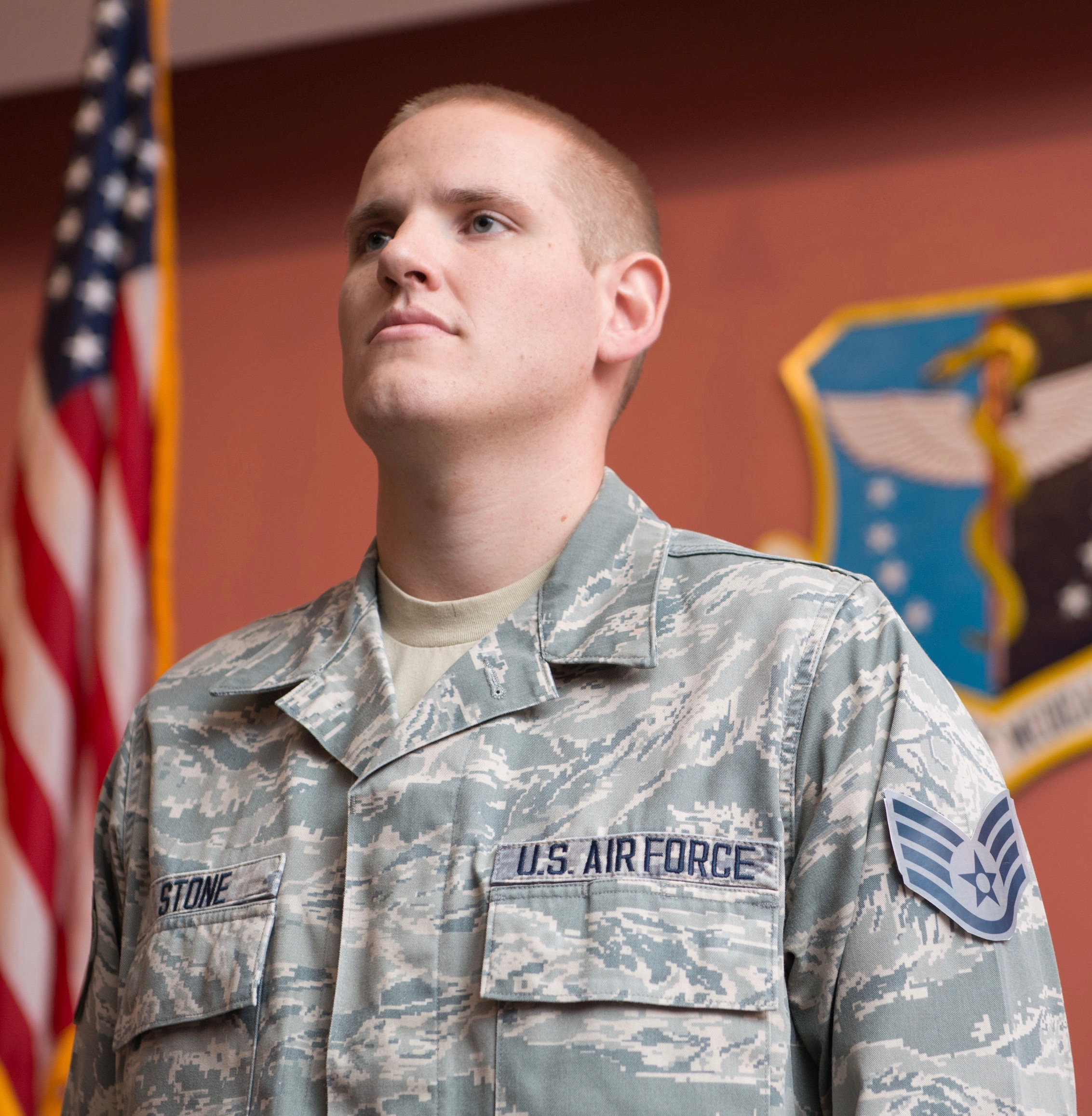 Staff Sgt. Spencer Stone, 60th Medical Operations Squadron medical technician, listens as the responsibilities of non-commissioned offers are read during a promotion ceremony at Travis Air Force Base, California, Oct. 30, 2015. Following his promotion to senior airman minutes earlier, Stone was promoted to the rank of staff sergeant by order of Air Force Chief of Staff Gen. Mark A. Welsh III. According to Air Force Instruction 36-502, the chief of staff of the Air Force has the authority to promote any enlisted member to the next higher grade. Stone became the recipient of the rare honor following his heroic actions in August when he and two friends thwarted a potential terrorist attack on a train traveling to Paris. (U.S. Air Force photo by Ken Wright/FOUO)